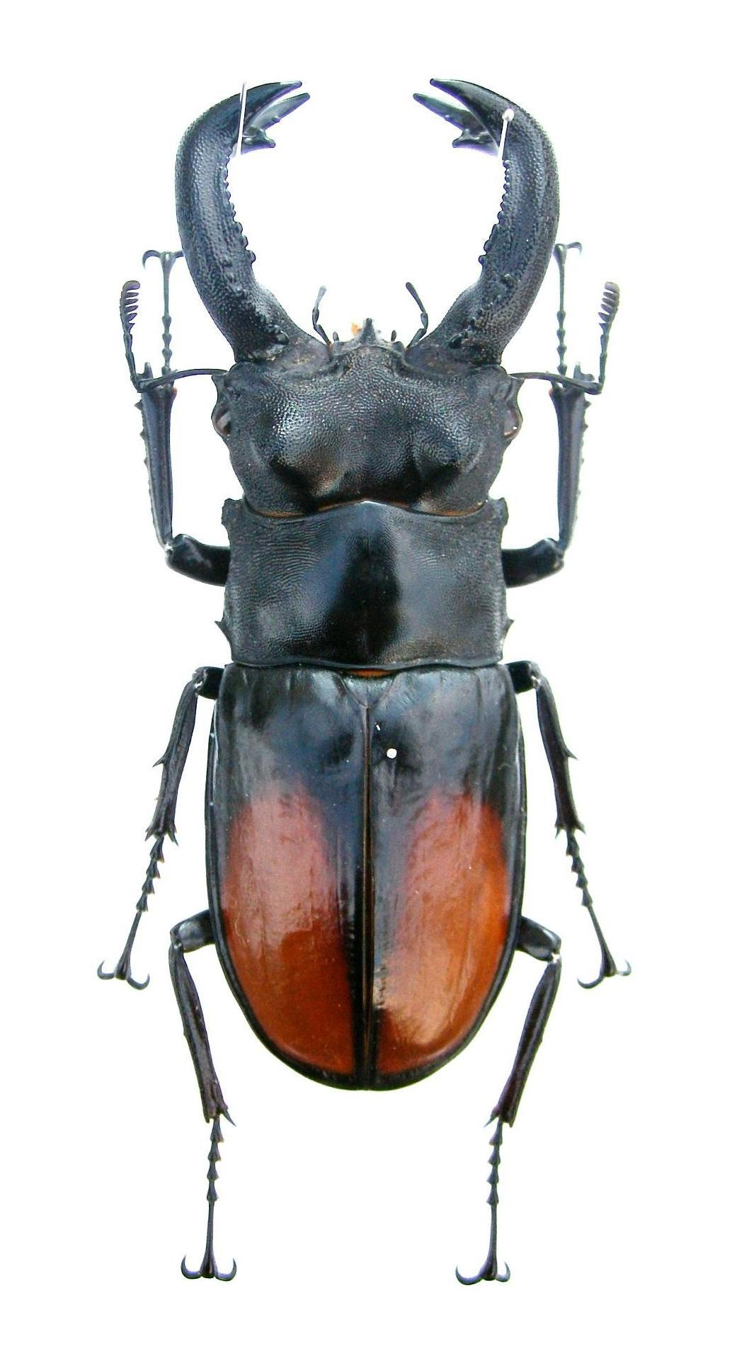 H. p. paradoxus